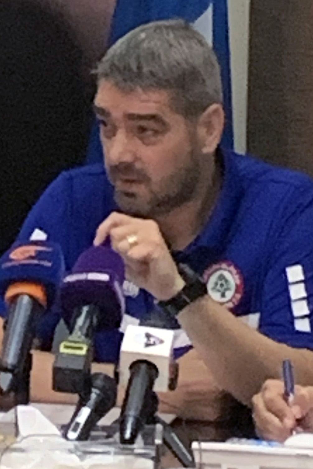 Liviu Ciobotariu press conference